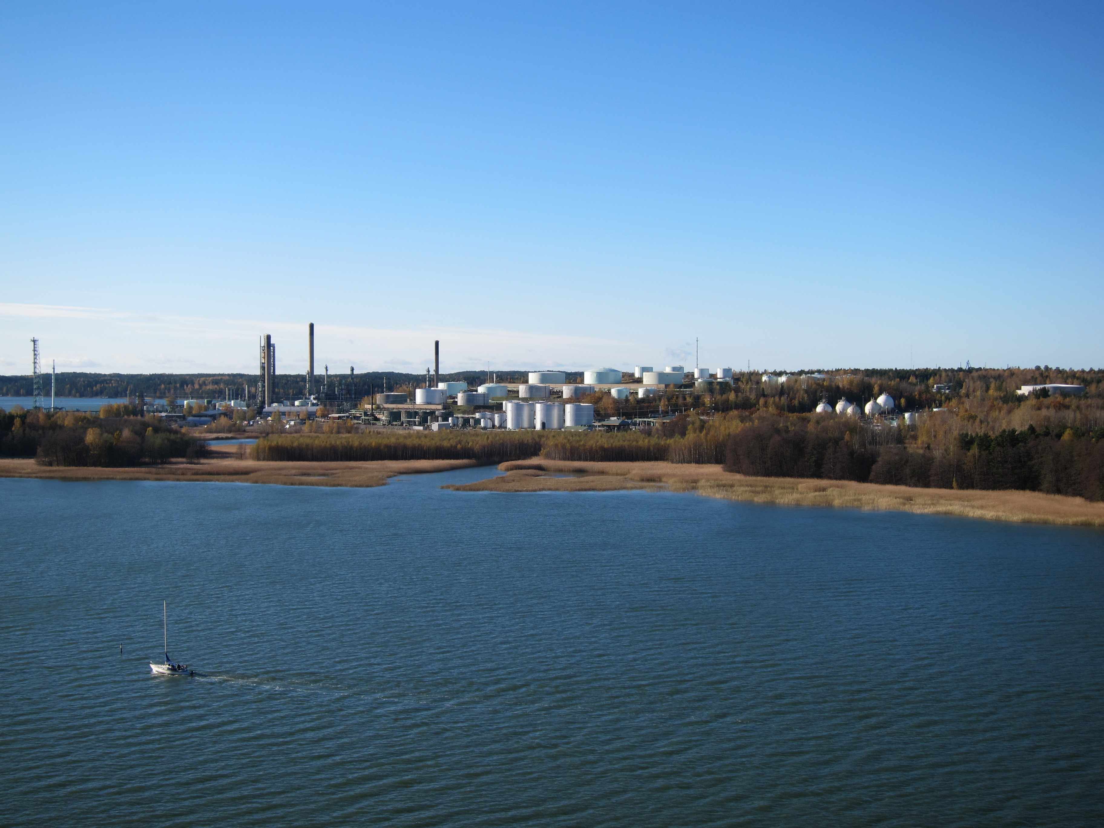 View from MS Allure of the Seas at STX Europe shipyard Turku, Finland. In the foreground is located Naantali refinery owned by Neste Oil in the city of Naantali. Also in the foreground grow much Phragmites (Common reed) (Phragmites australis).